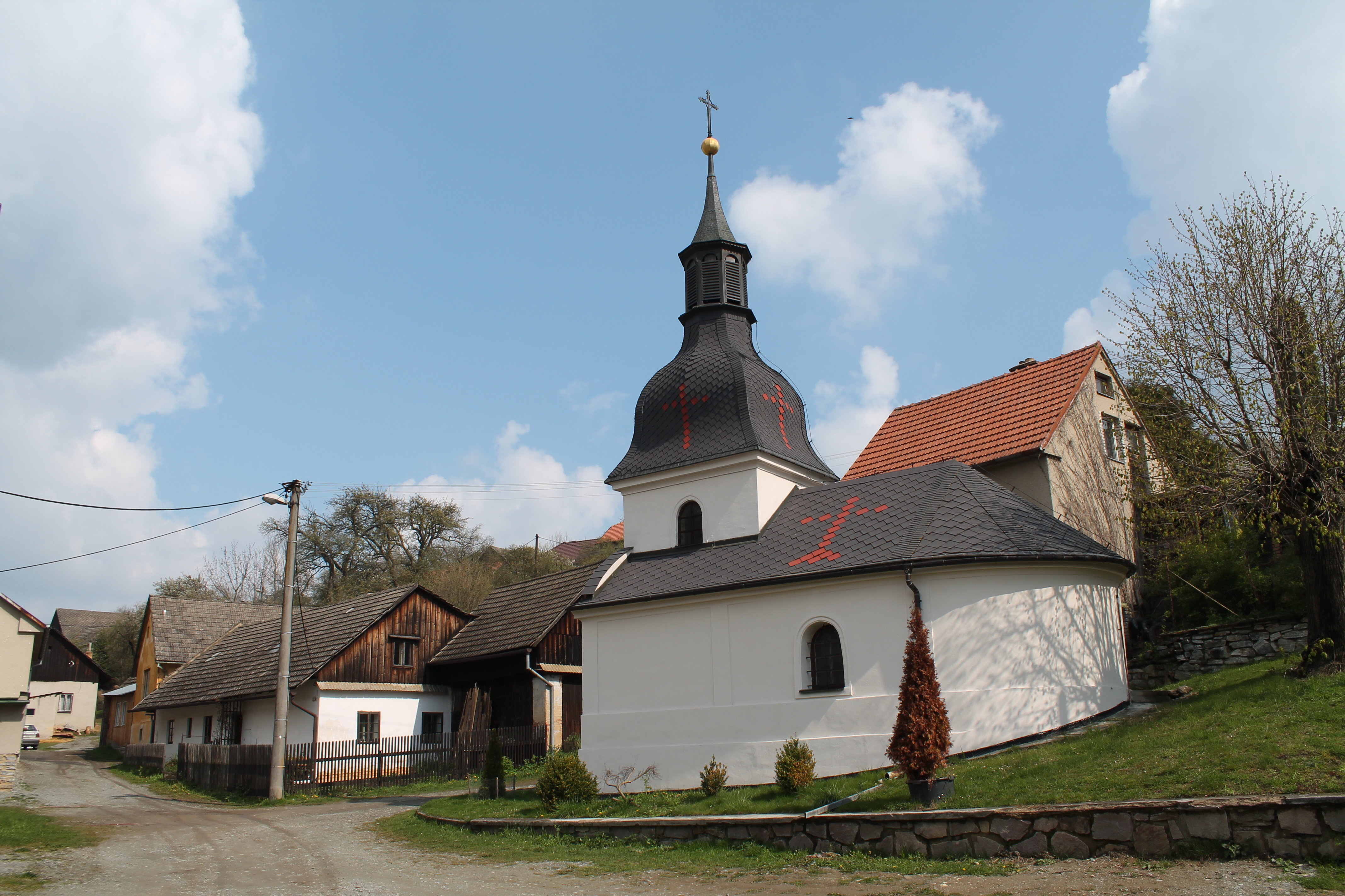 Chapel of Holy Trinity, Makov, Blansko District, Czech Republic This photograph was taken during a group photography field trip by Brno Wikipedians: 2017-04-29.